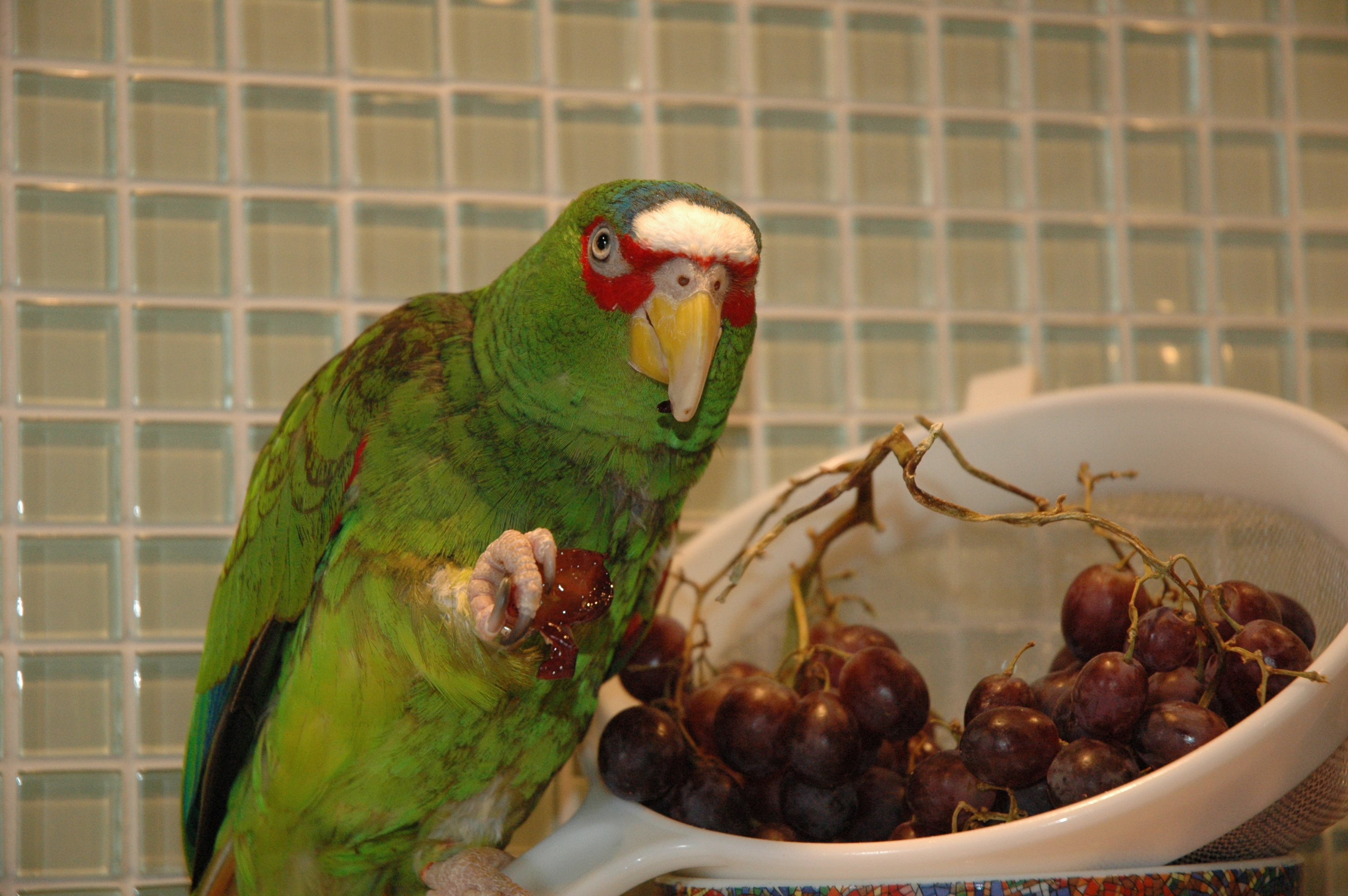 A 25-year old pet White-fronted Amazon (named Eugy) eating red grapes in a kitchen.